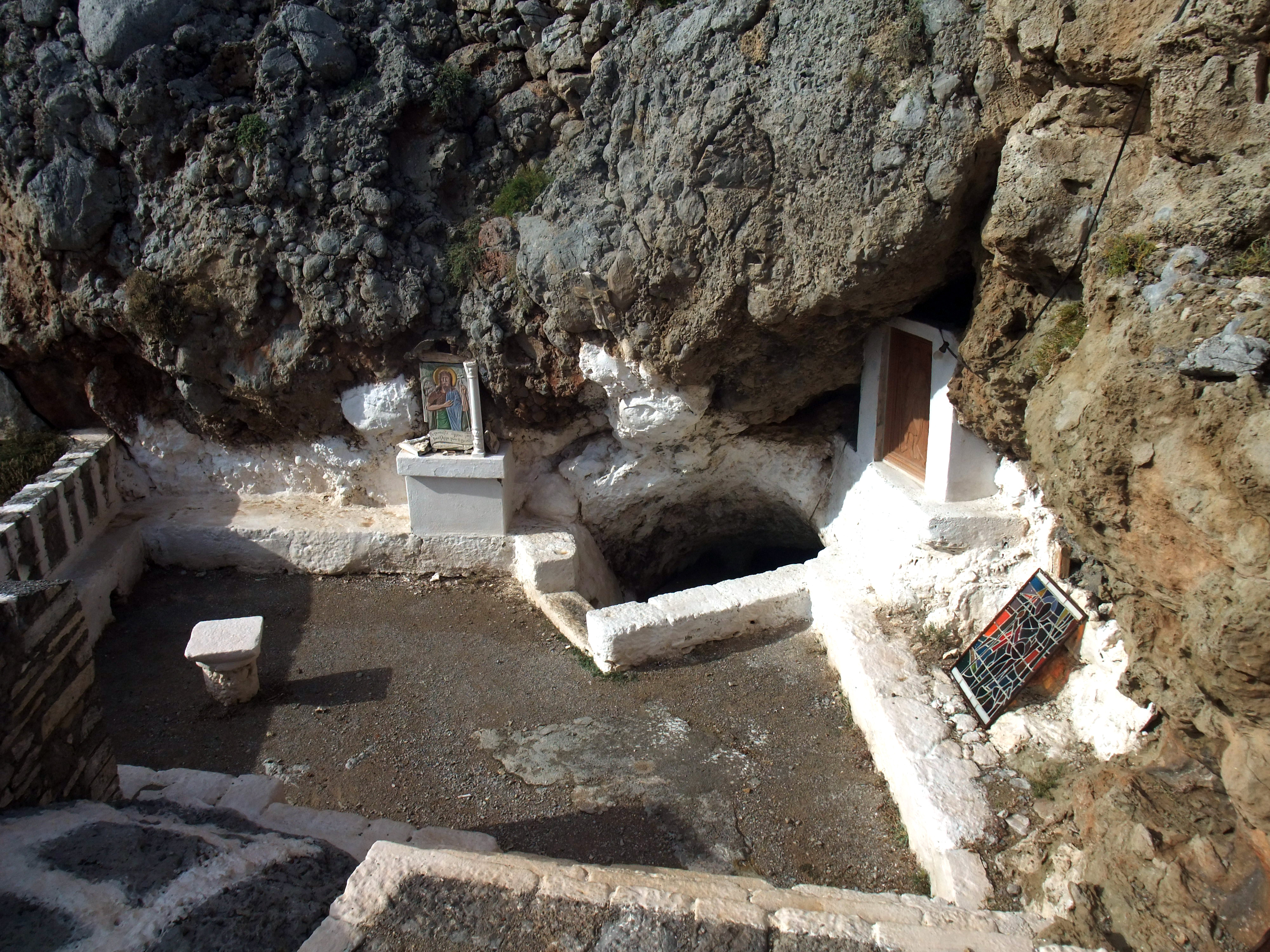 Doorway to the subterranean chapel, bay of Wurgúnda, Karpathos, Greek Dodecanese islands